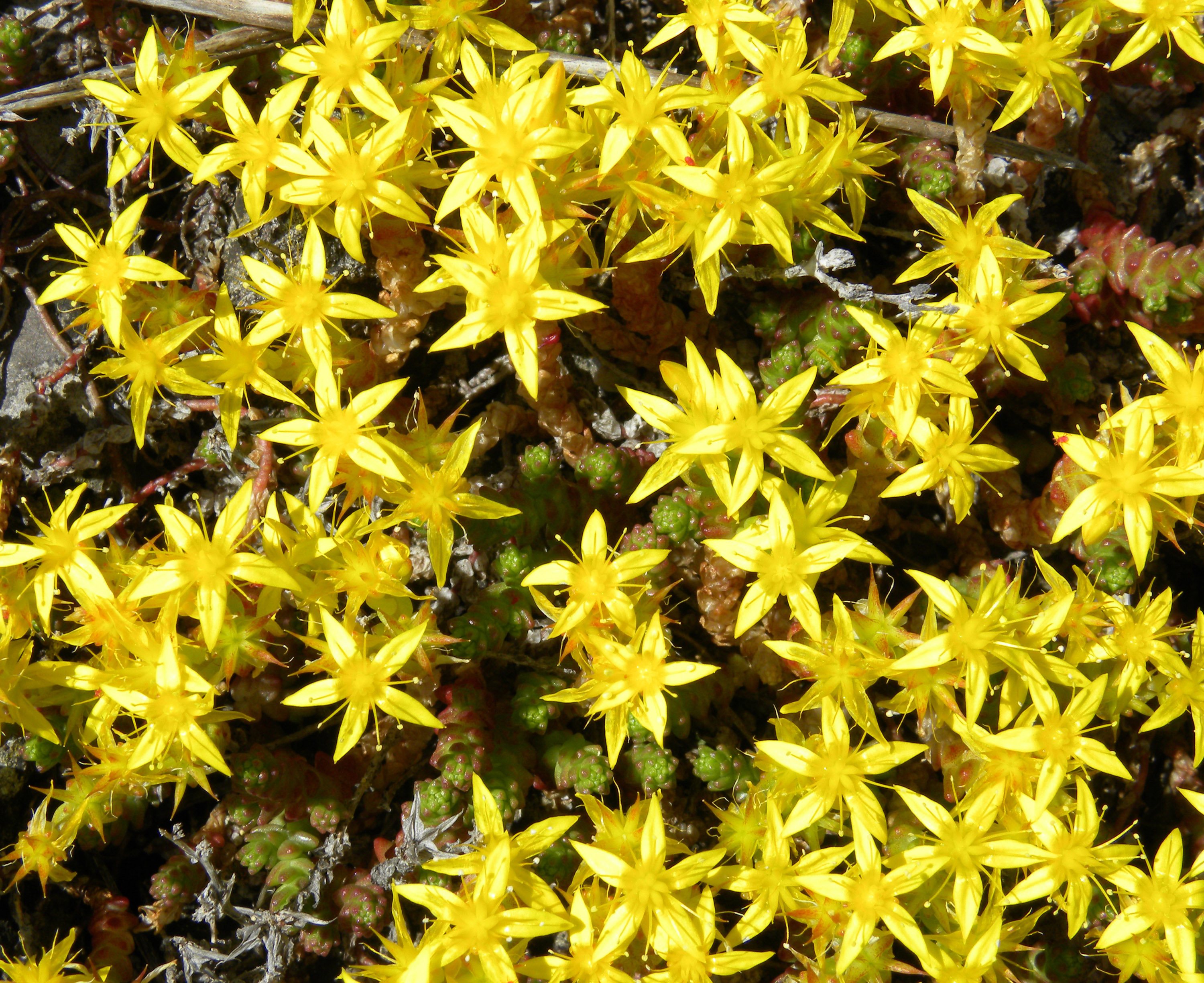 Sedum acre; Saaremaa, Estonia.